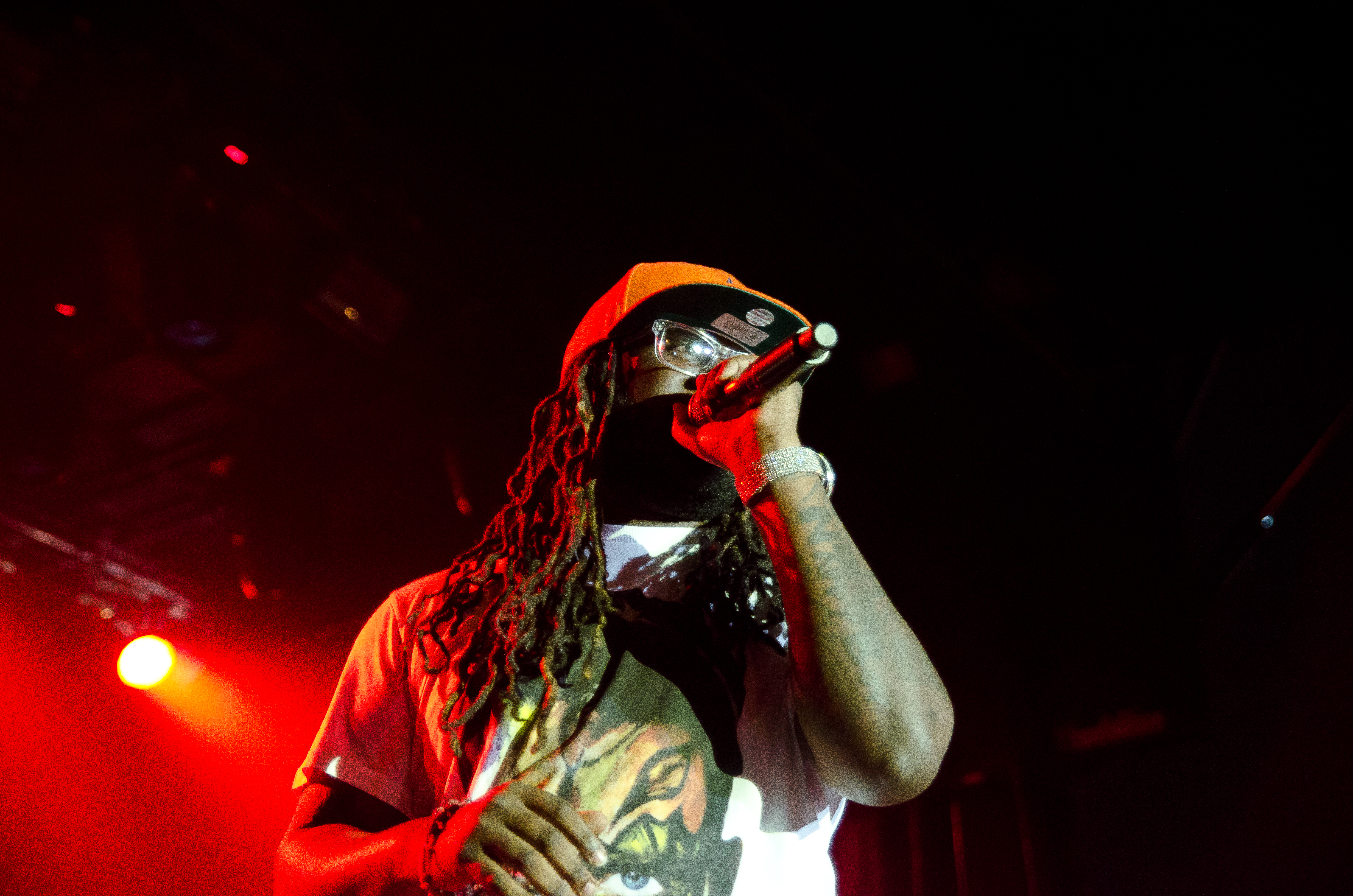 T-Pain